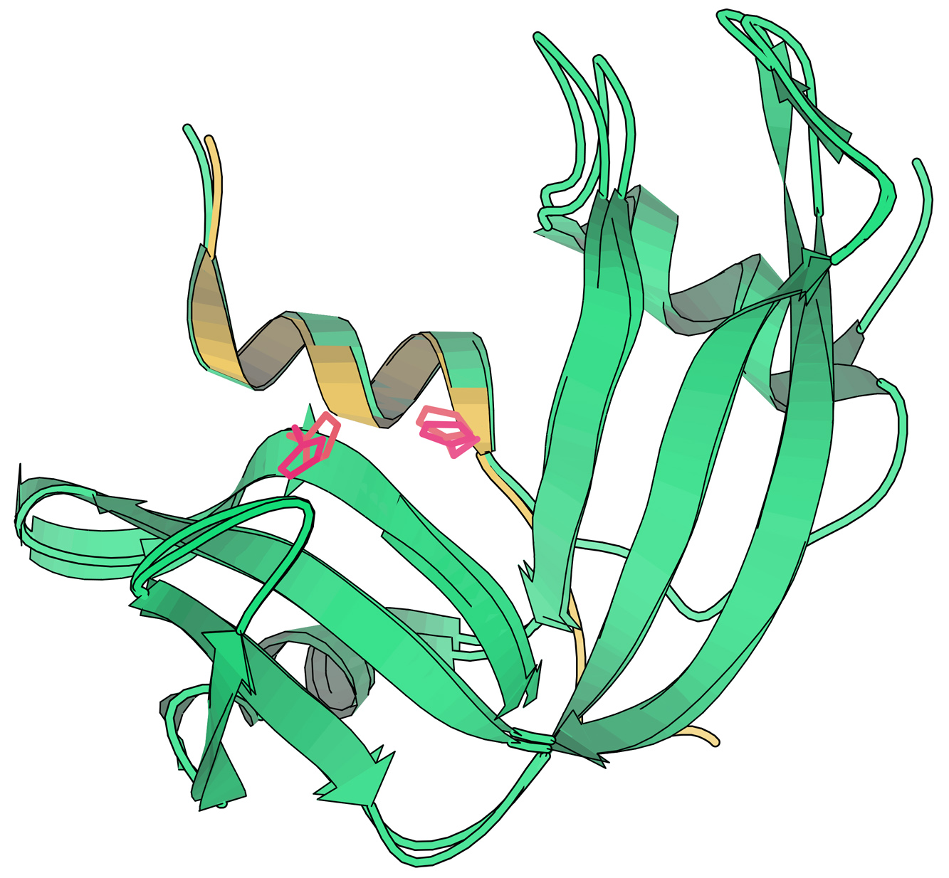 Superposition of Ribonuclease S (cleaved between residues 20-21) onto Ribonuclease A, showing close match of both overall 3D fold and of active site histidines 12 and 119 (hotpink) at the active site. Done in KiNG, from PDB files 1rns and 7rsa.